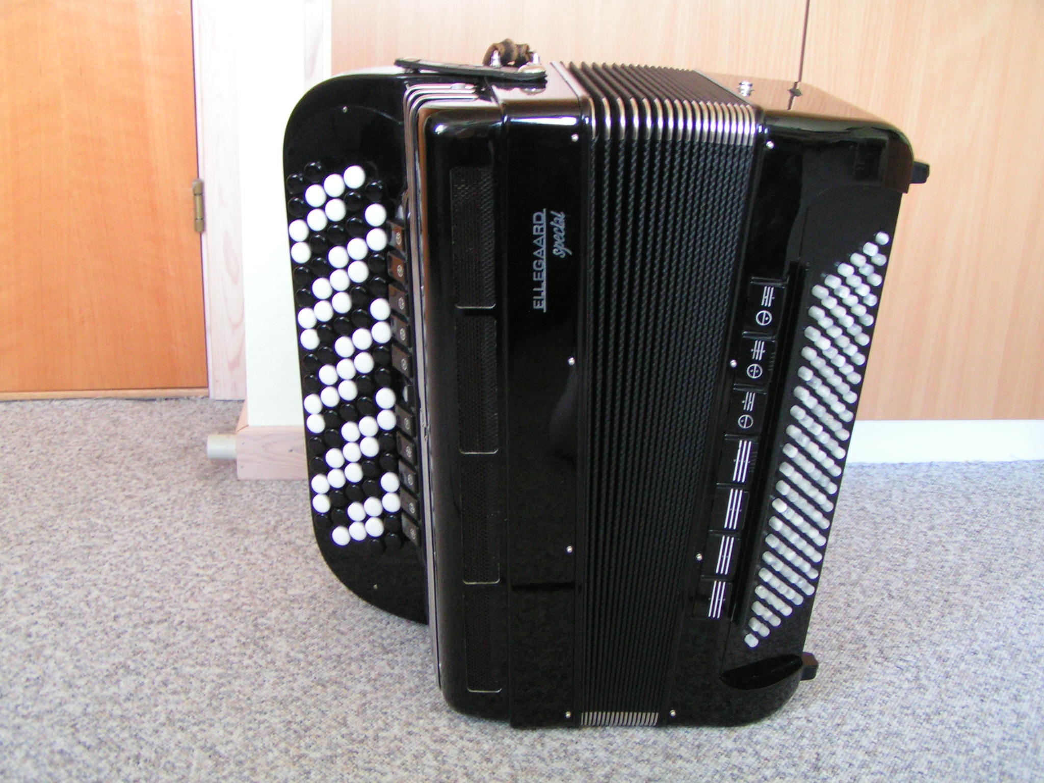 An accordion with converter.